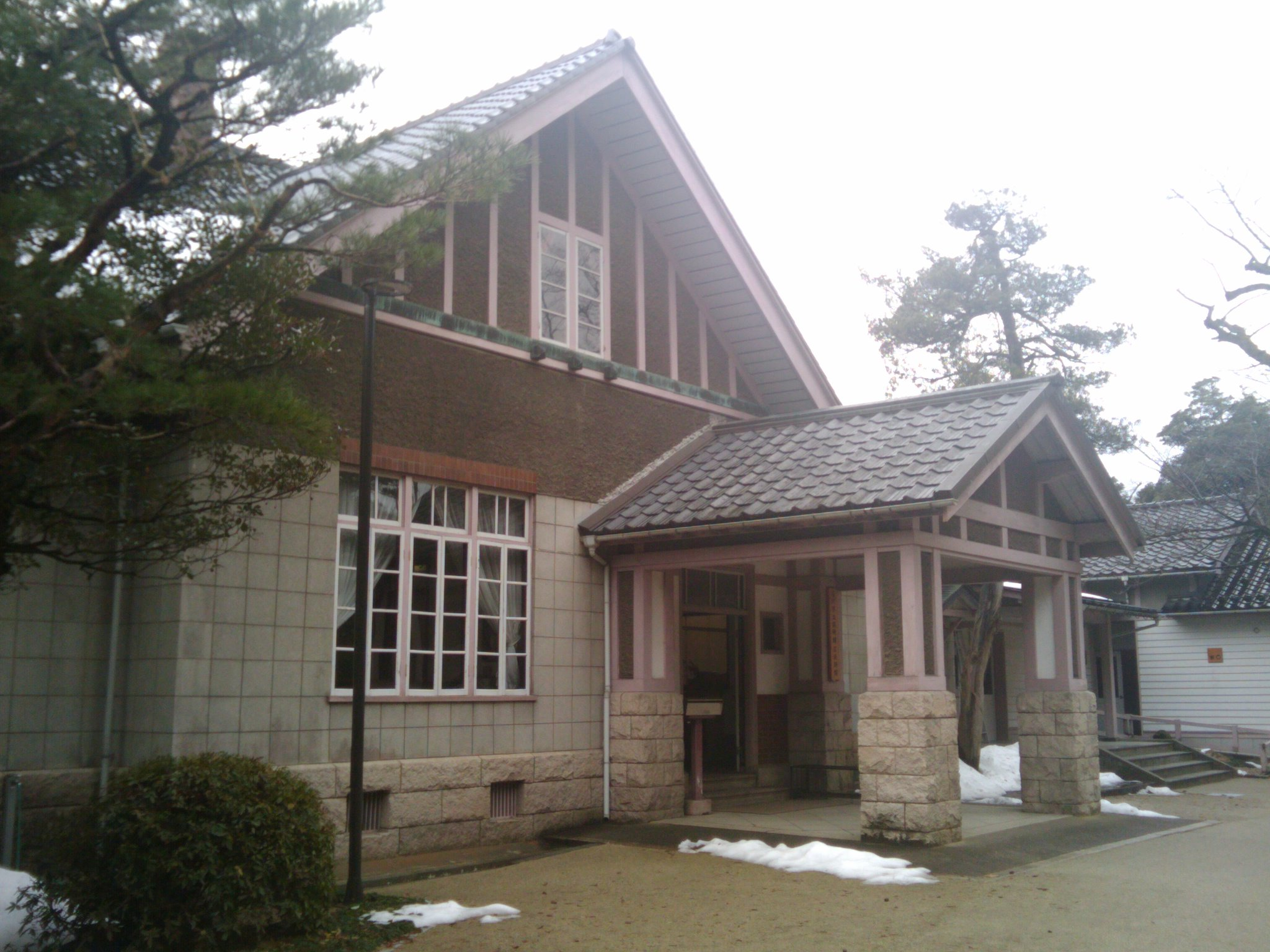 Ishikawa Prefectural Museum of Art (Annex Hirosaka)